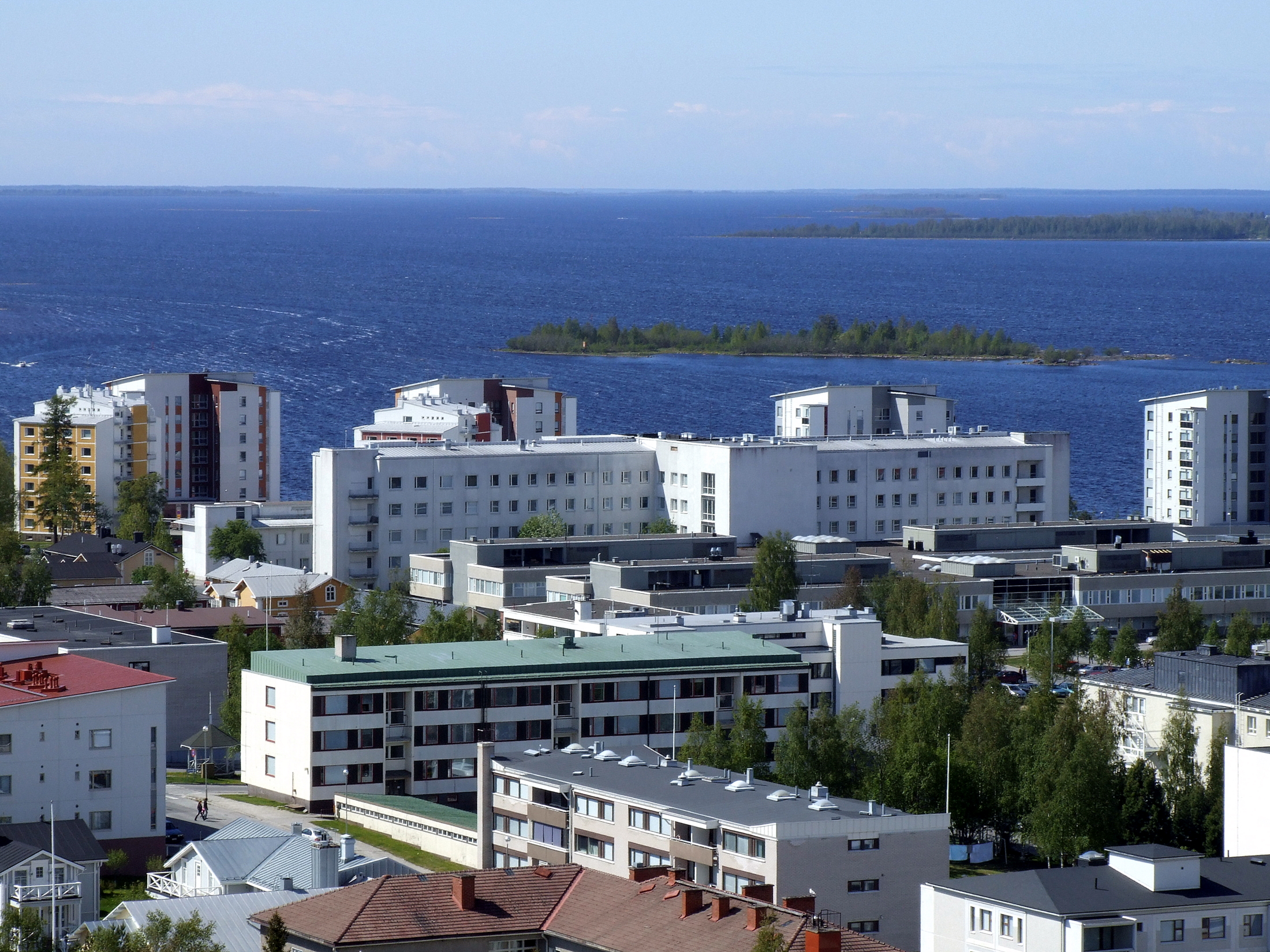 A view of central Kemi. Länsi-Pohja Central Hospital in the middle of the photograph.